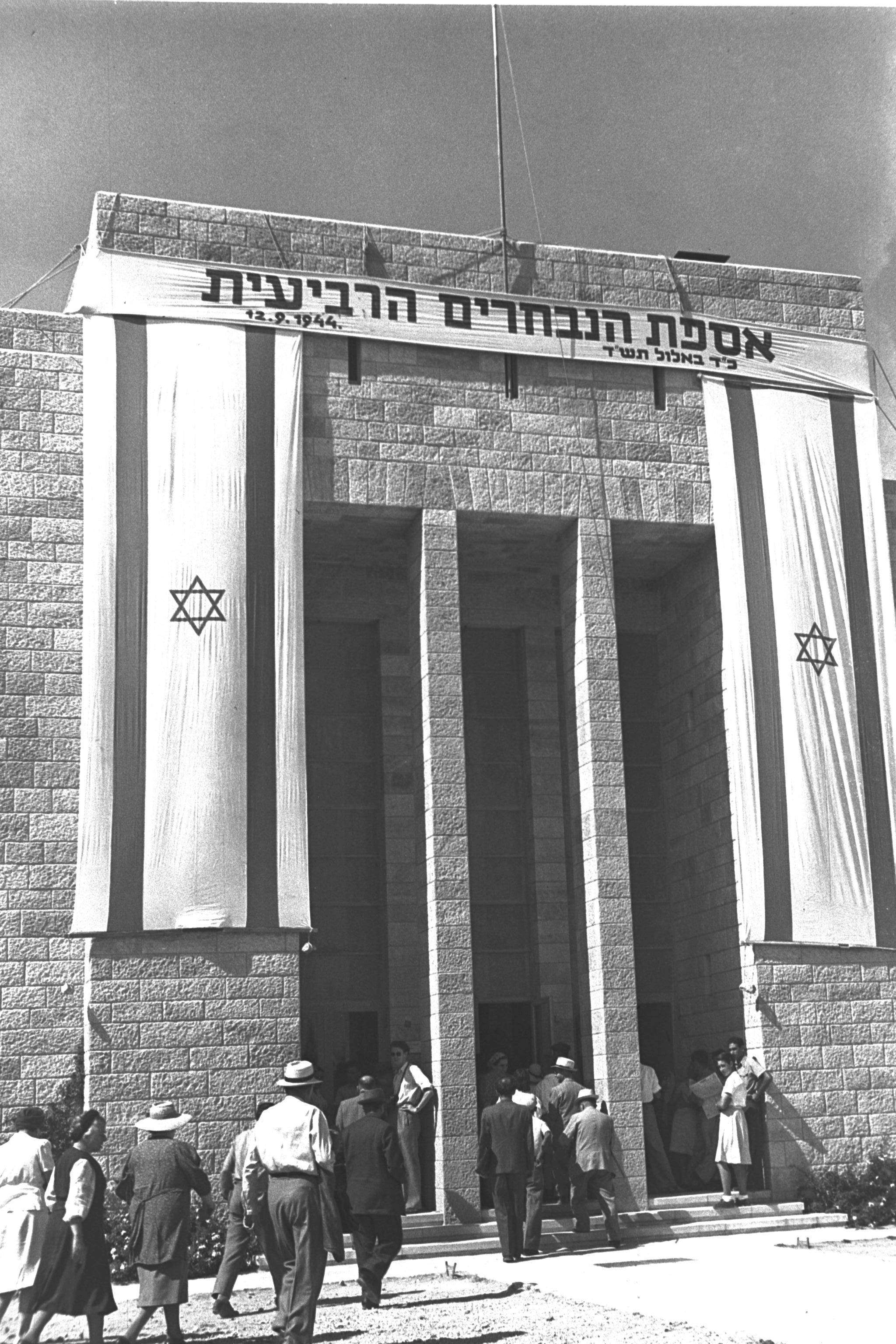 DELEGATES ENTERING THE MEETING HALL OF THE NATIONAL COUNCIL (ELECTED ASSEMBLY) IN JERUSALEM. צירים מגיעים לאספת הנבחרים הרביעית בירושלים.